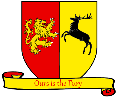 A fictional coat of arms. The personal coat of arms of Joffrey Baratheon. Shows gold on red lion and a black on gold crowned stag combatant. Underneath on a scroll is a motto: Ours is the Fury. The following Commons images were used to create this image: File:Old French Escutcheon.svg by Masur (talk · contribs) File:Lion Coward.svg by Sodacan (talk · contribs) (flipped horizontally) File:Blason famille fr Dunand1.svg by Stella3 (talk · contribs) (stag) File:Scottish crest badge element - Antique Crown.svg by Celtus (talk · contribs) File:Coat-elements-2.png by Qyd (talk · contribs) (scroll on bottom)